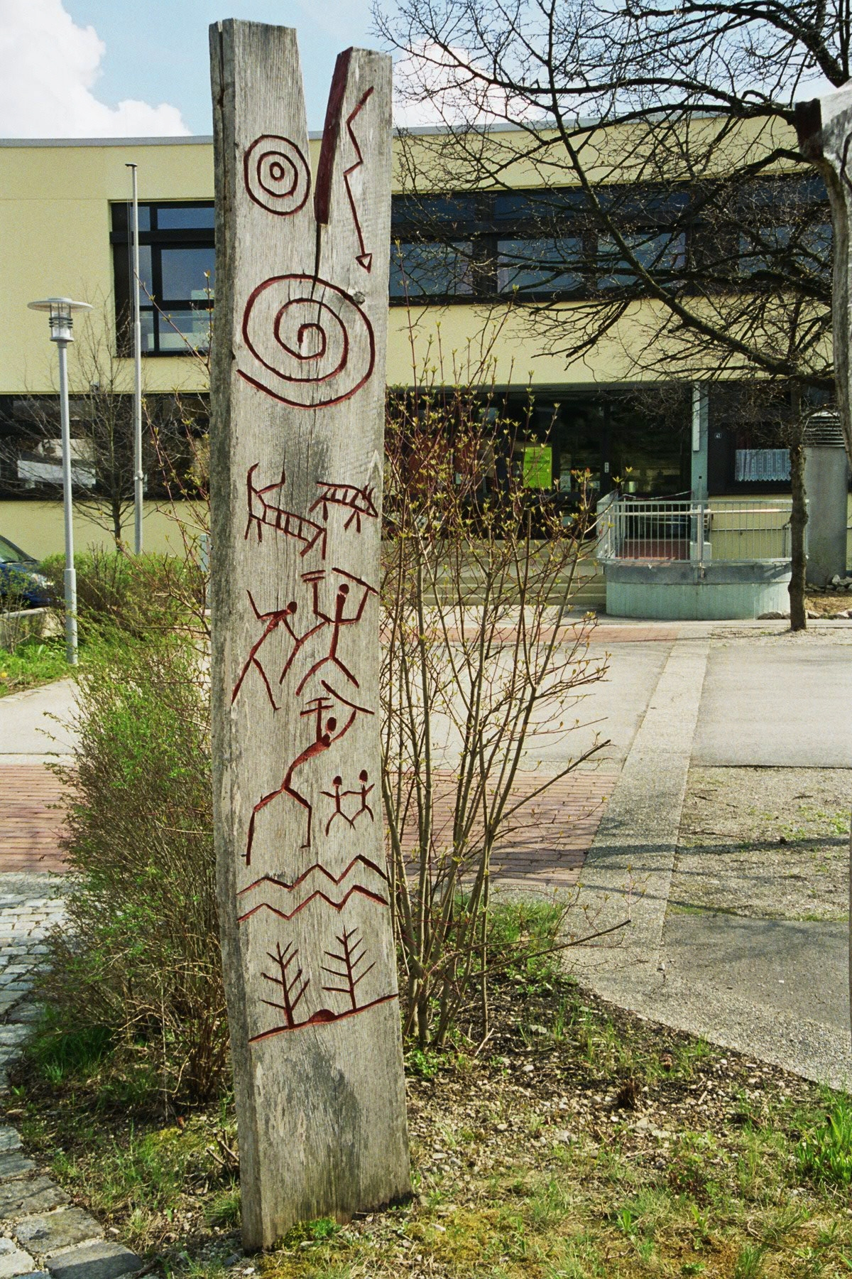 Artwork by Brigitte Storch for Starzelbachschule in Eichenau, Germany